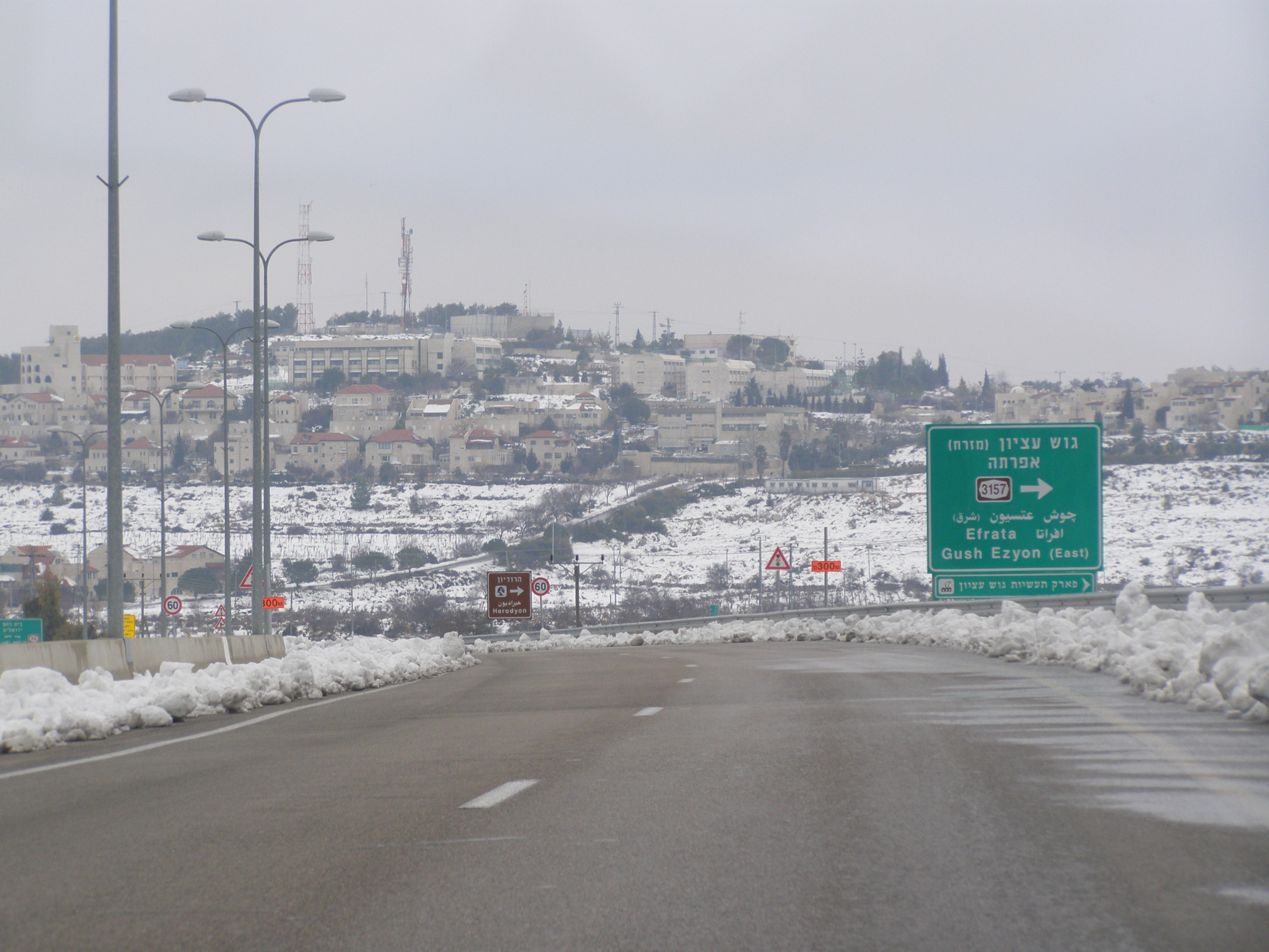 The town of Efrat in winter